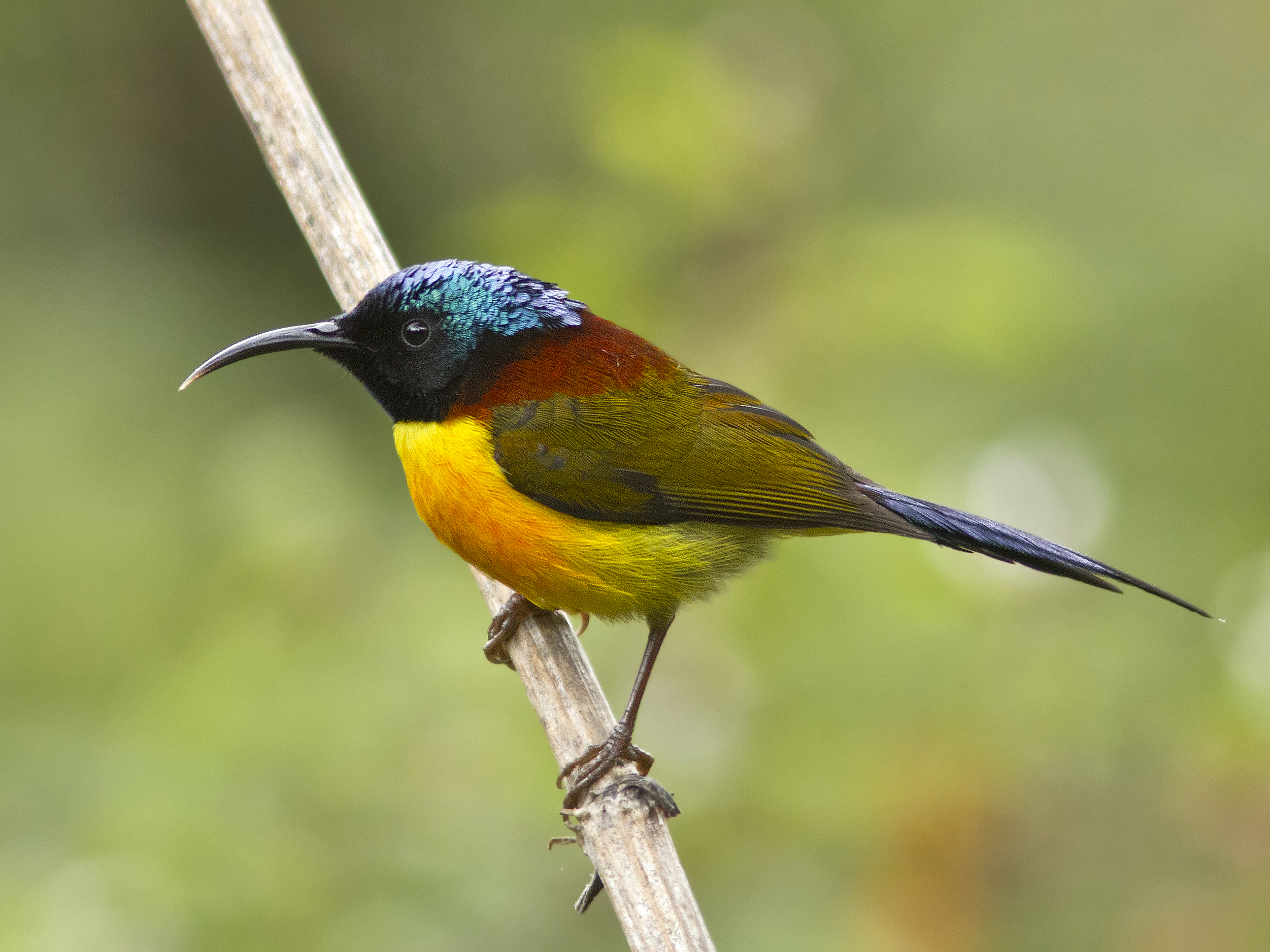 Green-tailed sunbird (Aethopyga nipalensis) clicked in Bhutan